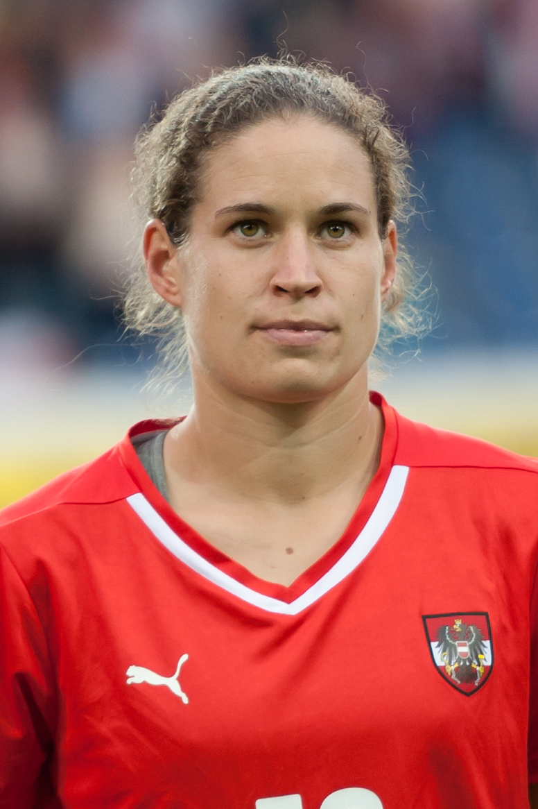 Women's Euro Qualification Austria vs. Wales, 2015-09-22, St. Pölten, Lower Austria